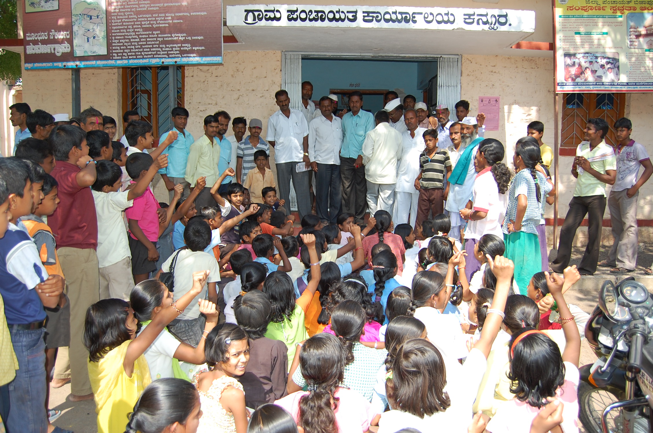 A snap of the children of Kannur when they took a procession to the village Governing Body and urged them to take steps to eradicate alcoholism.